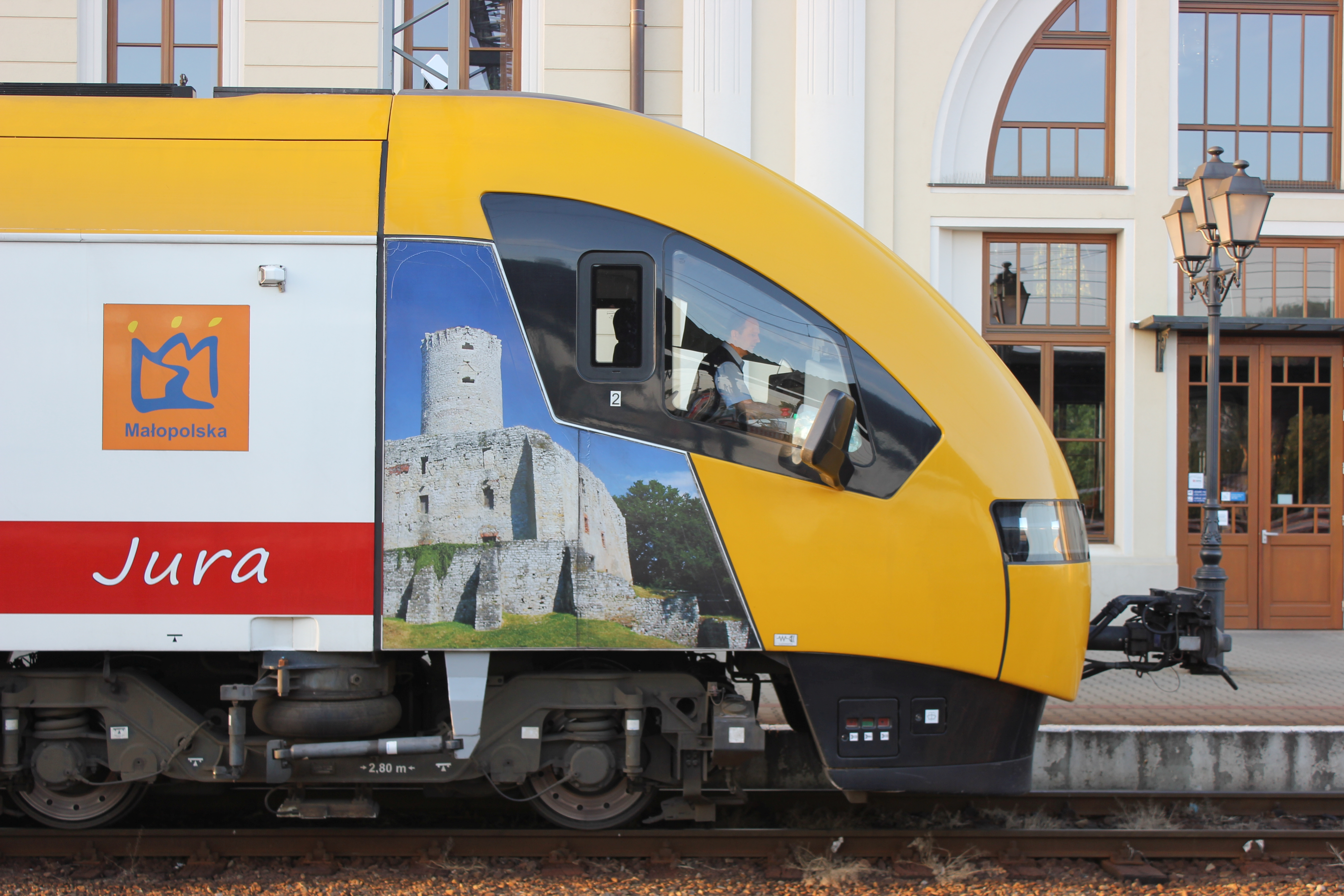 Tarnów - EN77-003 "Jura" electric multiple unit